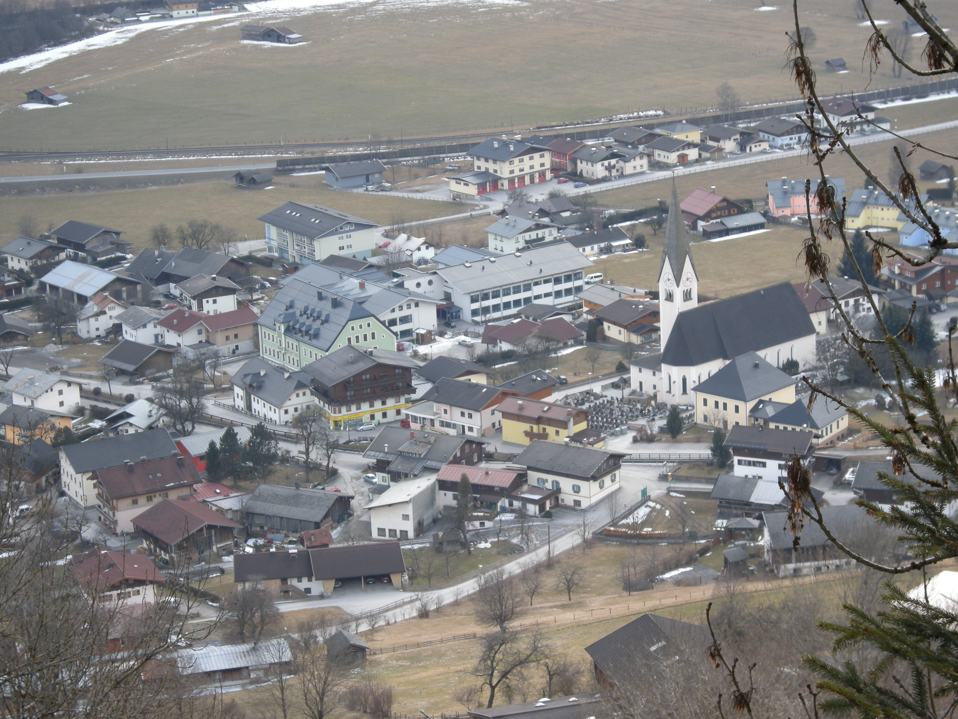 Central part of Uttendorf, Austria, with school (green) to the left of church. Taken from mountain slope north of the place.